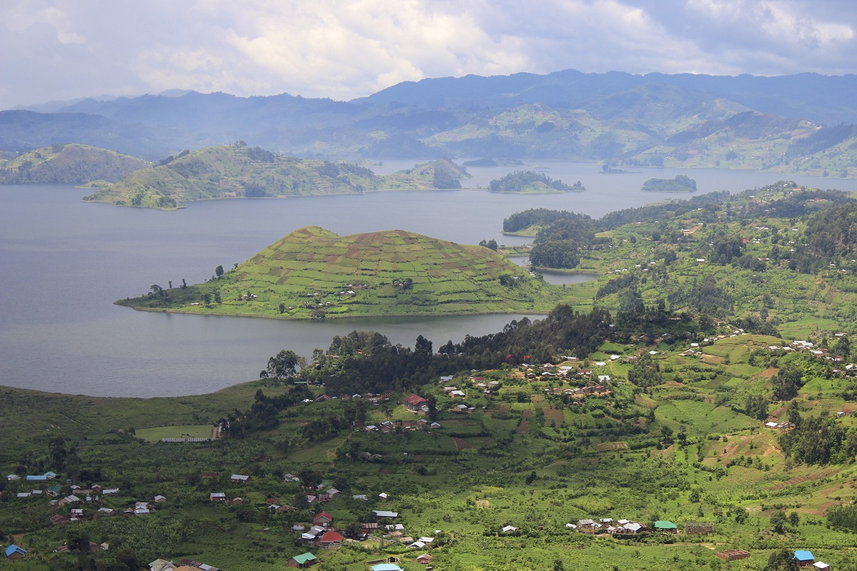 it represents the wounderfull lake in ʊɡanda with the serenic view that attracts many people from all corners of the world This is an image with the theme "Play" from: Uganda